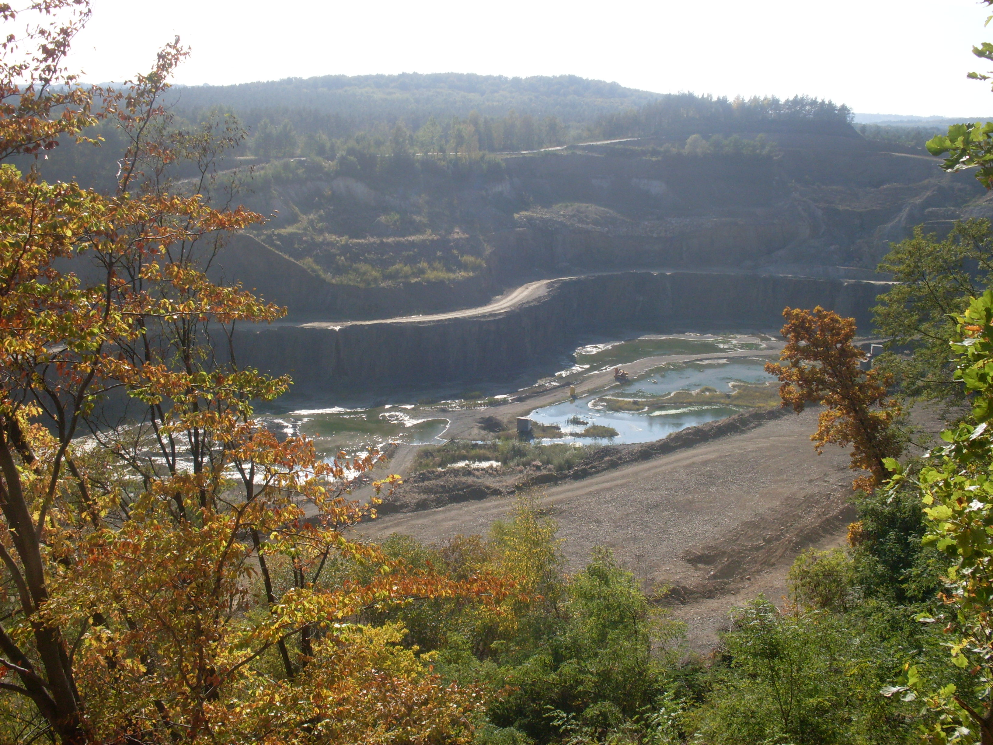 Niedźwiedzia Góra, Tenczynek, Poland